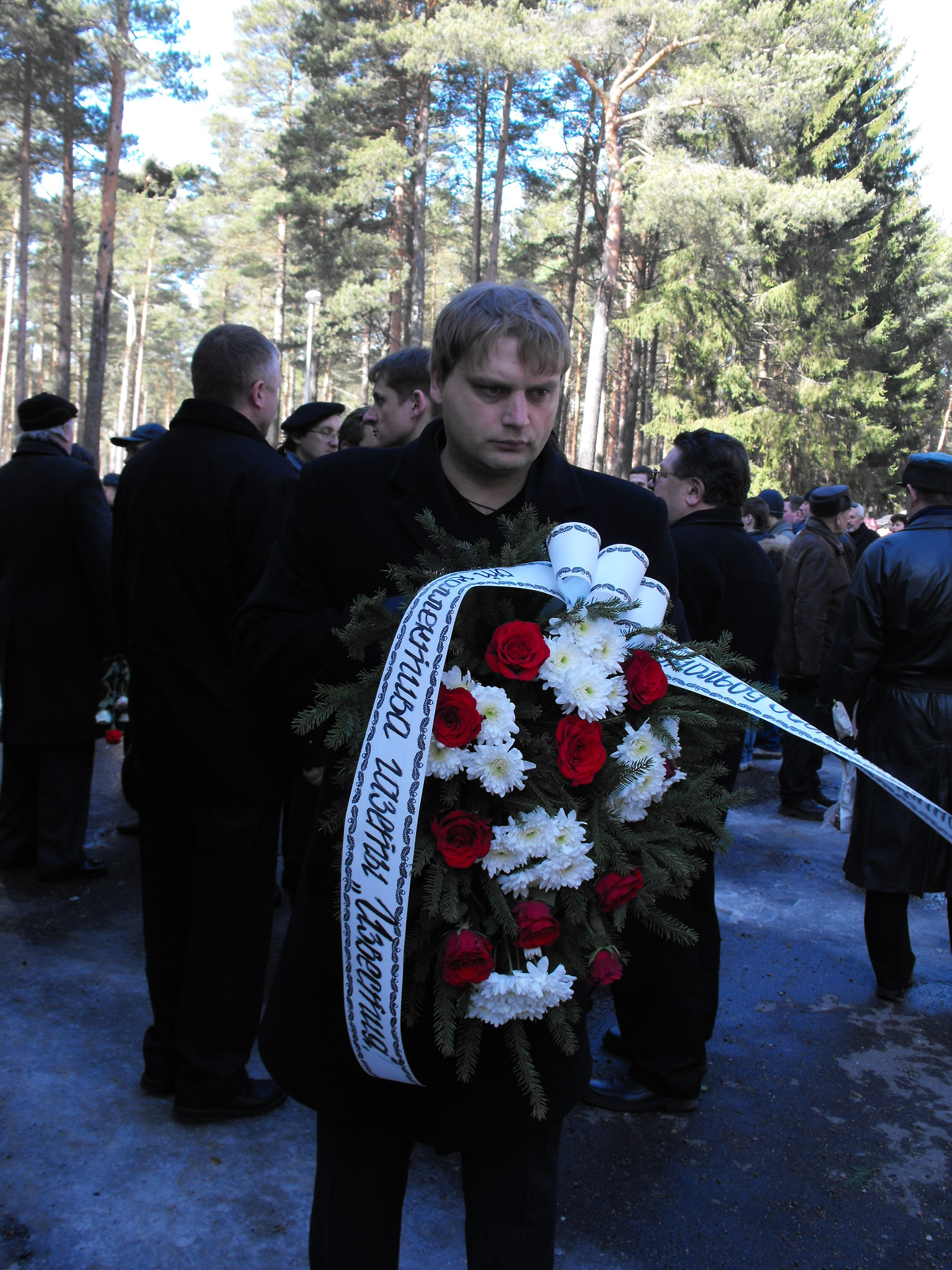 The funeral of Hero of the Soviet Union Arnold Meri in Tallinn on 1 April 2009. - Dmitri Linter